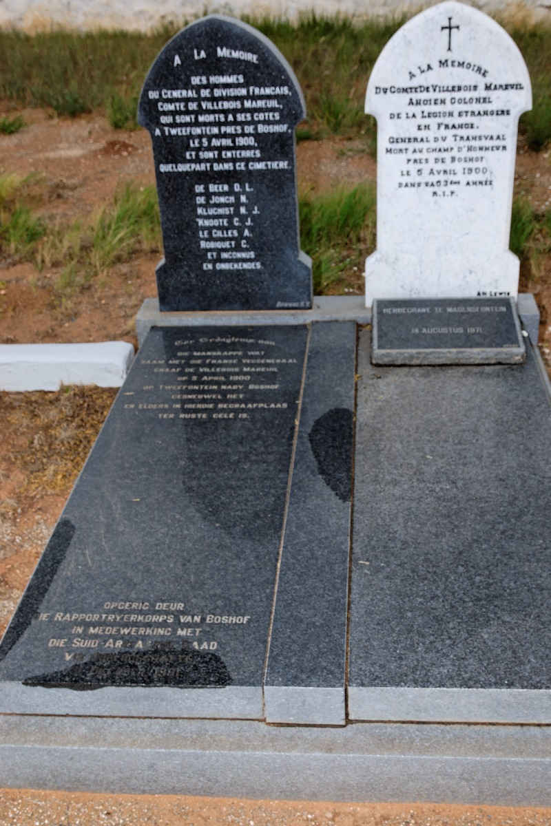 De Villebois